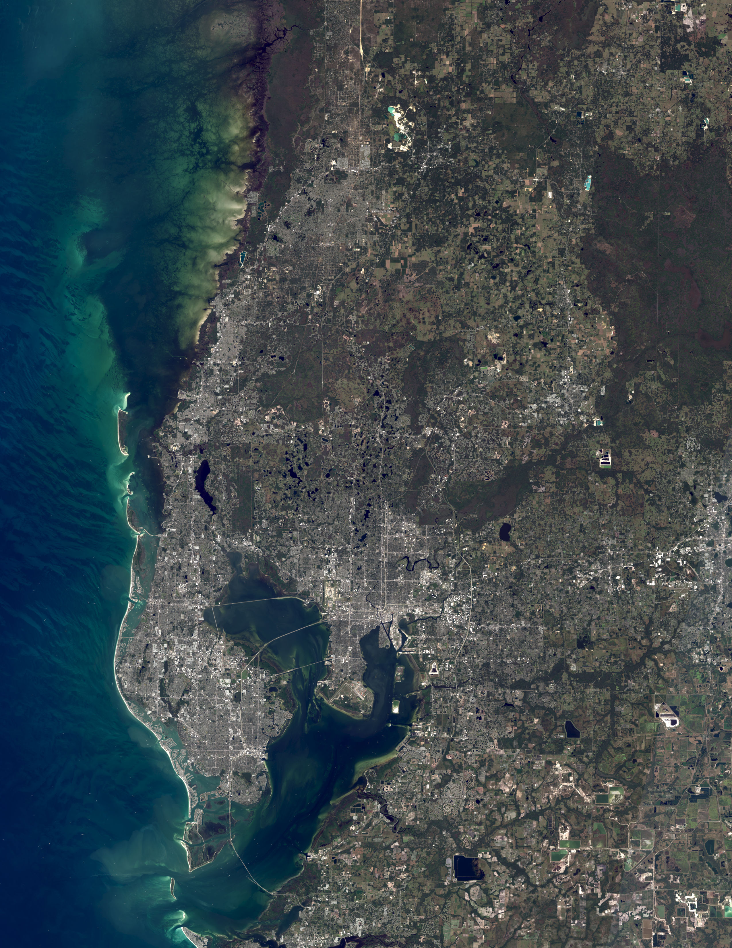 A natural color image composite of the Tampa Bay Metropolitan Statistical Area.